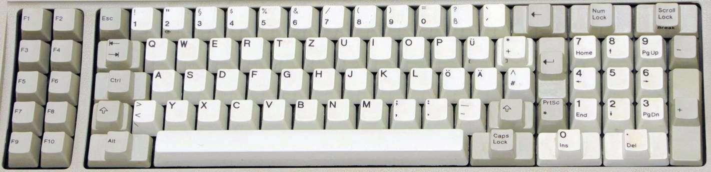 Area occupied by the keys of the German keyboard of an IBM portable PC, model 5155. Cropping of the original work of Hubert Berberich (Wikipedia user user::HubiB|HubiB ).